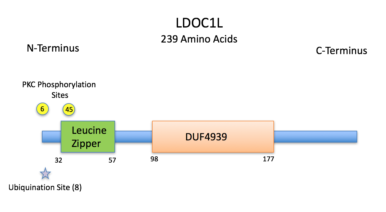 Protein annotation for LDOC1L